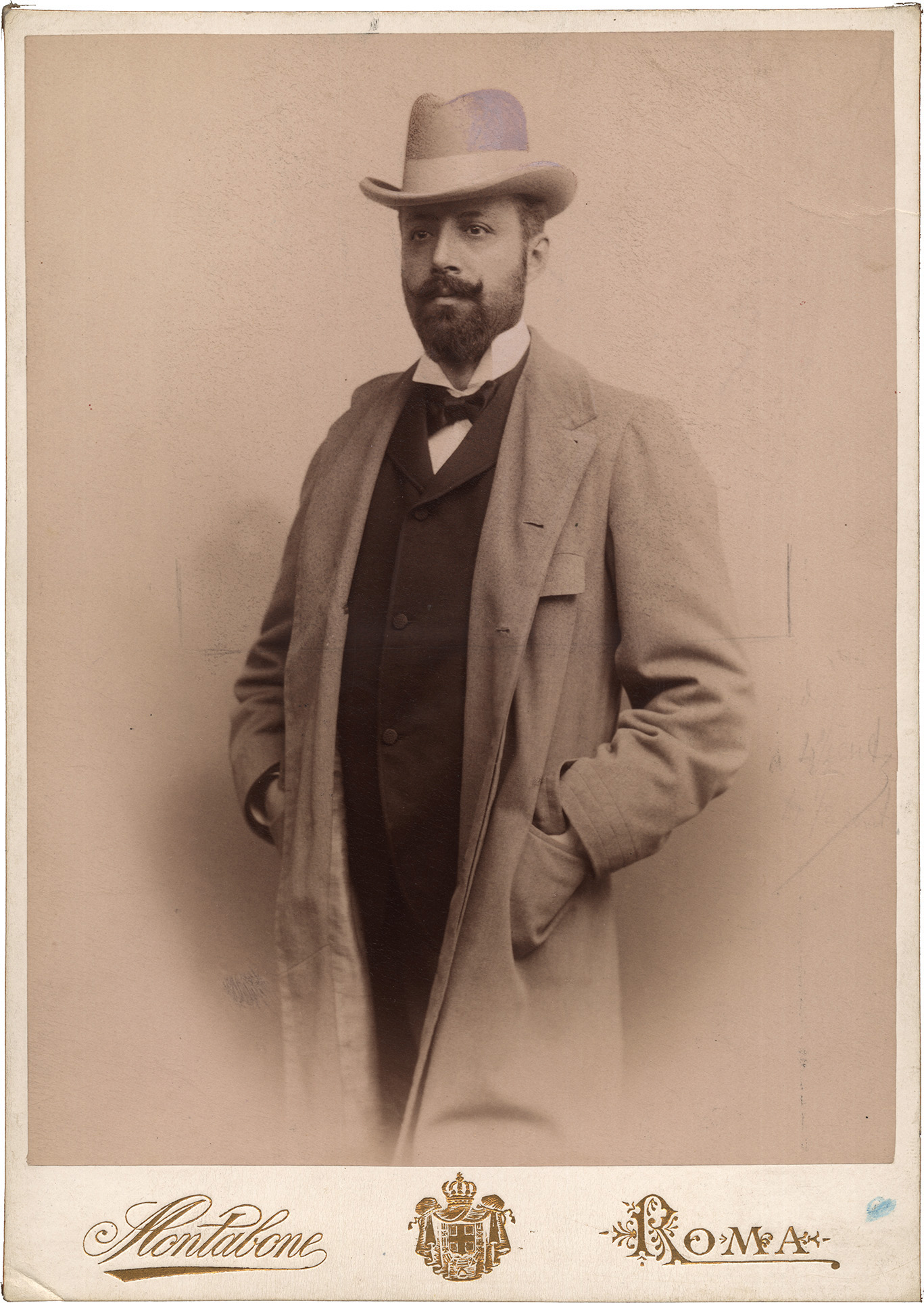 Portrait of Stanislao Falchi, composer (1851-1922). Photo by Luigi Montabone, Roma, before 1922.